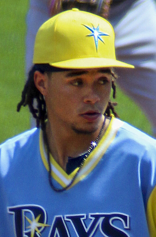 Chris Archer of the Tampa Bay Rays, 2017. St.Louis